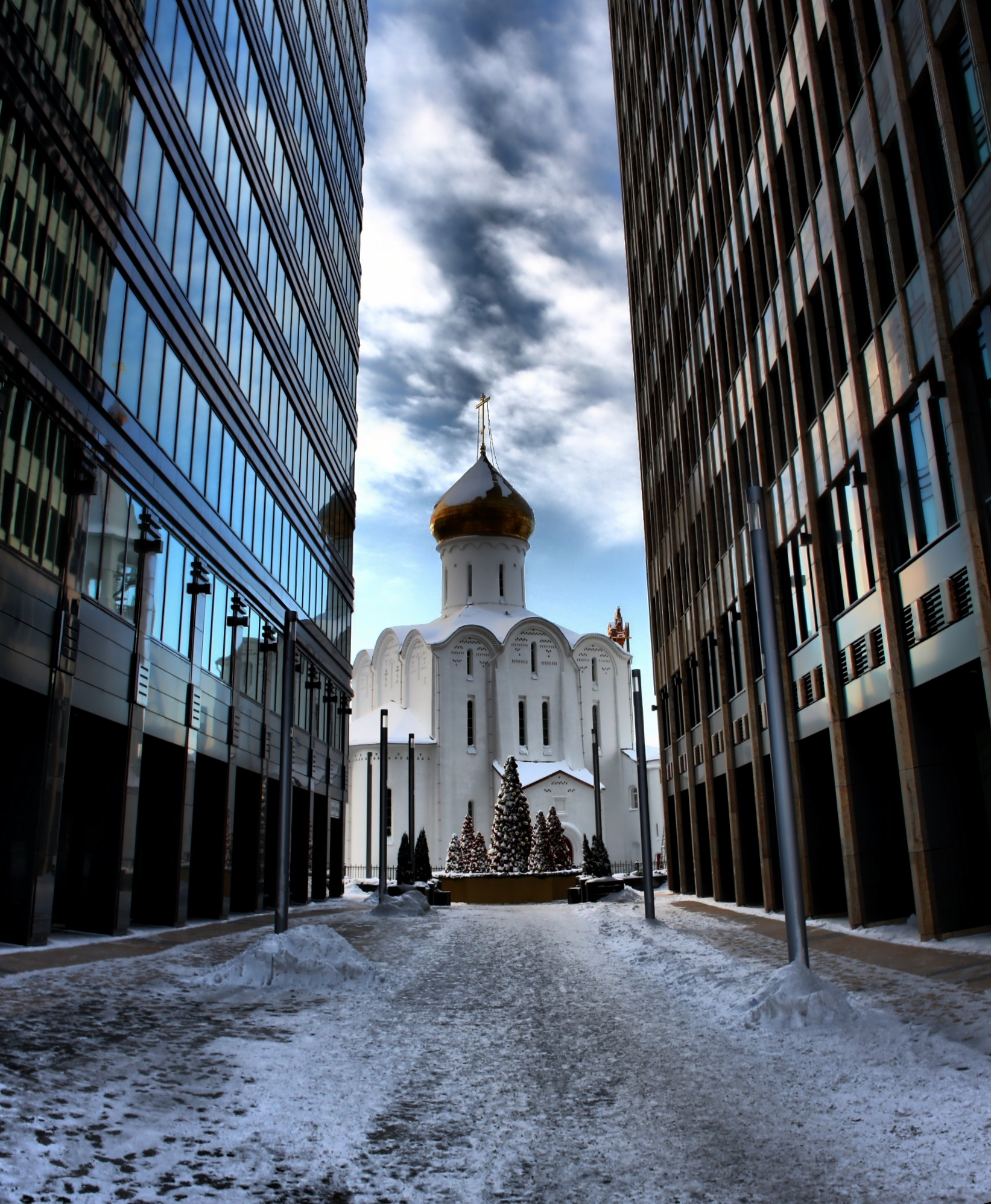 Church of SS. Nicholas and Tver, Old Believers, Val Butyrsky St., No. 8 (Zastavniy Pereulok, No. 3), Moscow